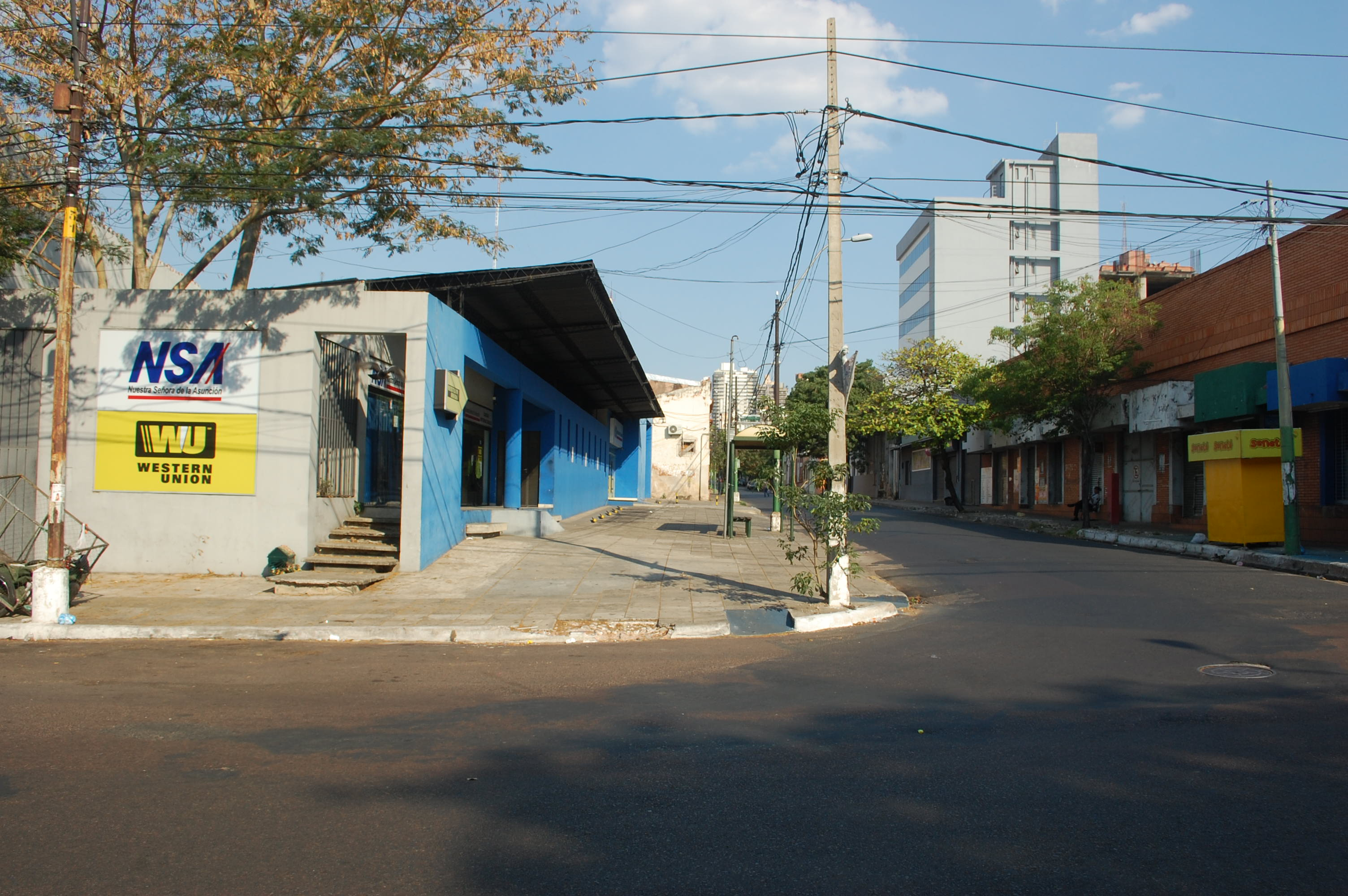 Catedral, Asuncion, Paraguay